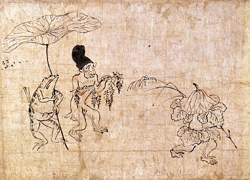 Fragment from the first scroll of Chōjū-jinbutsu-giga, depicting a frog holding a lilypad over a monk's head.